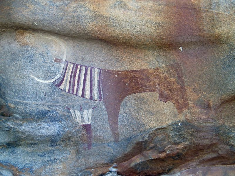 Detail of the Laas Geel cave paintings near Hargeysa, Somaliland/Somalia, showing a cow accompanied by a human being. This image is the most unusual one in the collection, the cow appears to be draped in ceremonial robes.